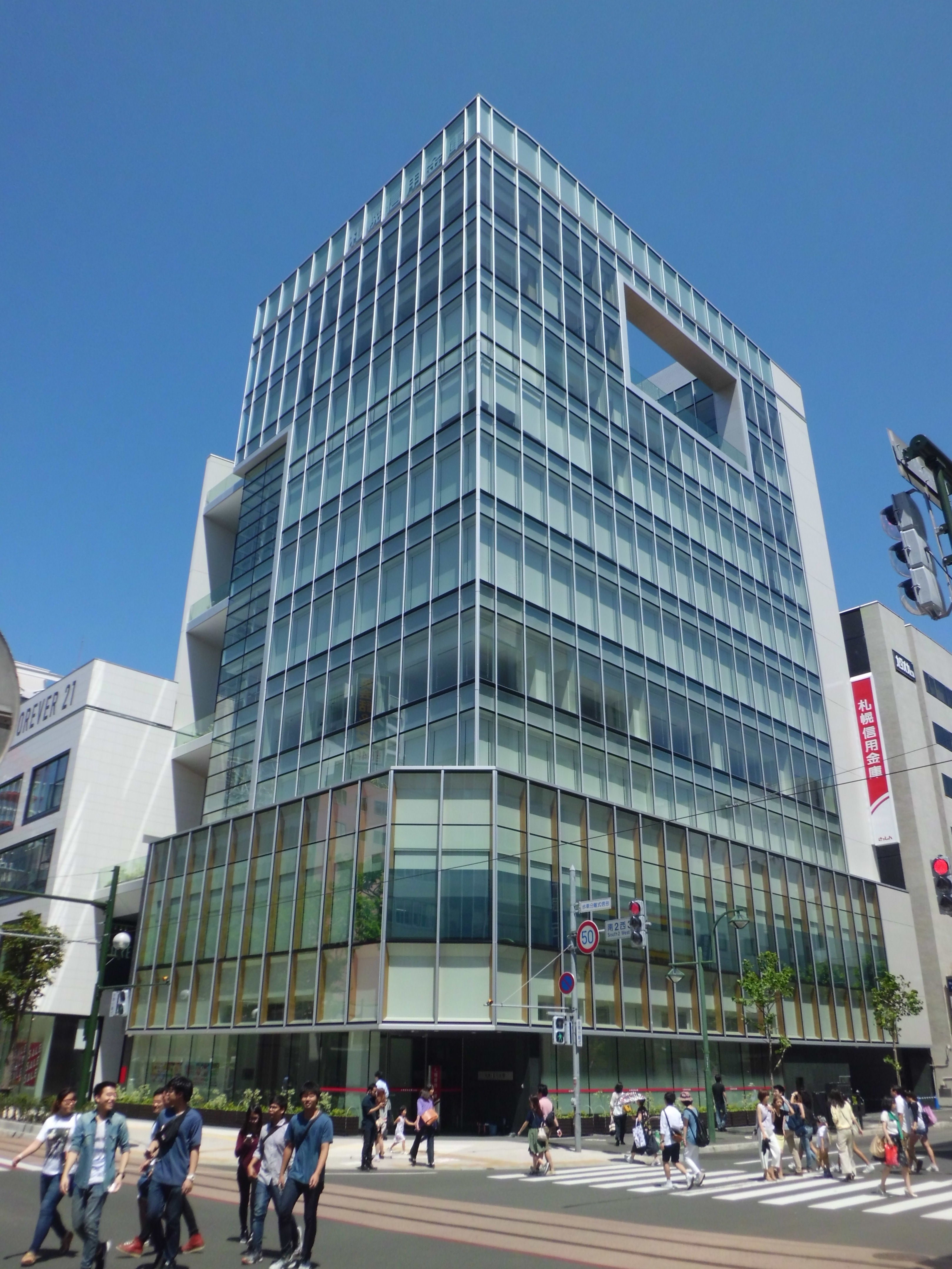 Main office of Sapporo Shinkin Bank